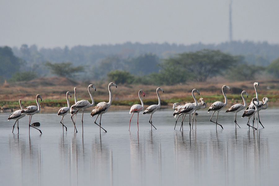 GreaterFlamingoJuv-Kelambakkam